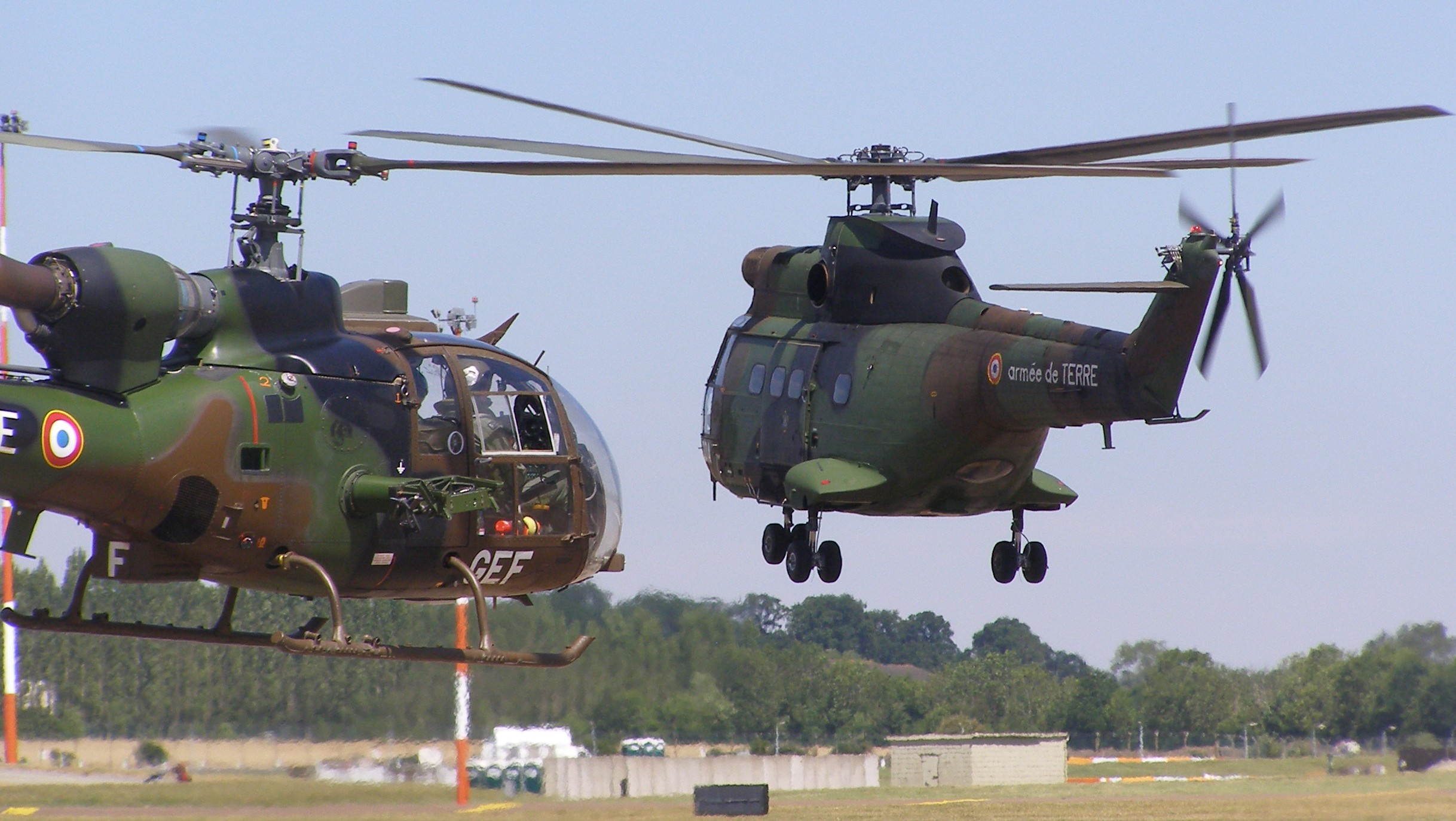 French Army SA 342L Gazelle #2210 coded GEF with SA 300B Puma #1190 coded DDA about to depart from the 2010 Royal International Air Tattoo at RAF Fairford